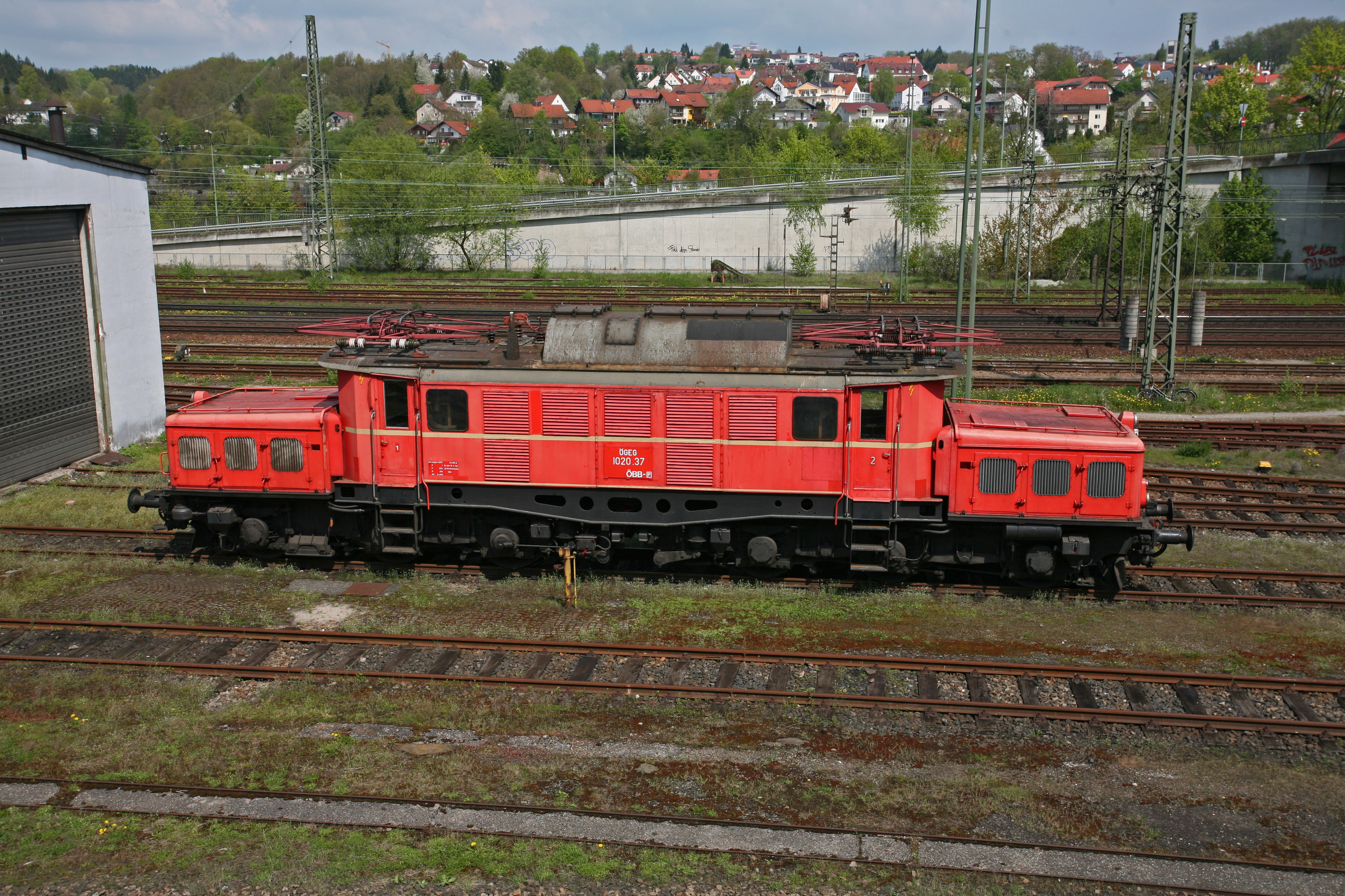 ÖBB 1020.37 at Passau Hbf, Germany